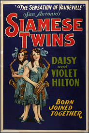 Scan of a poster circa 1920 of Daisy and Violet Hilton from the Billy Rose Theater Collection of the New York Public Library for the Performing Art.